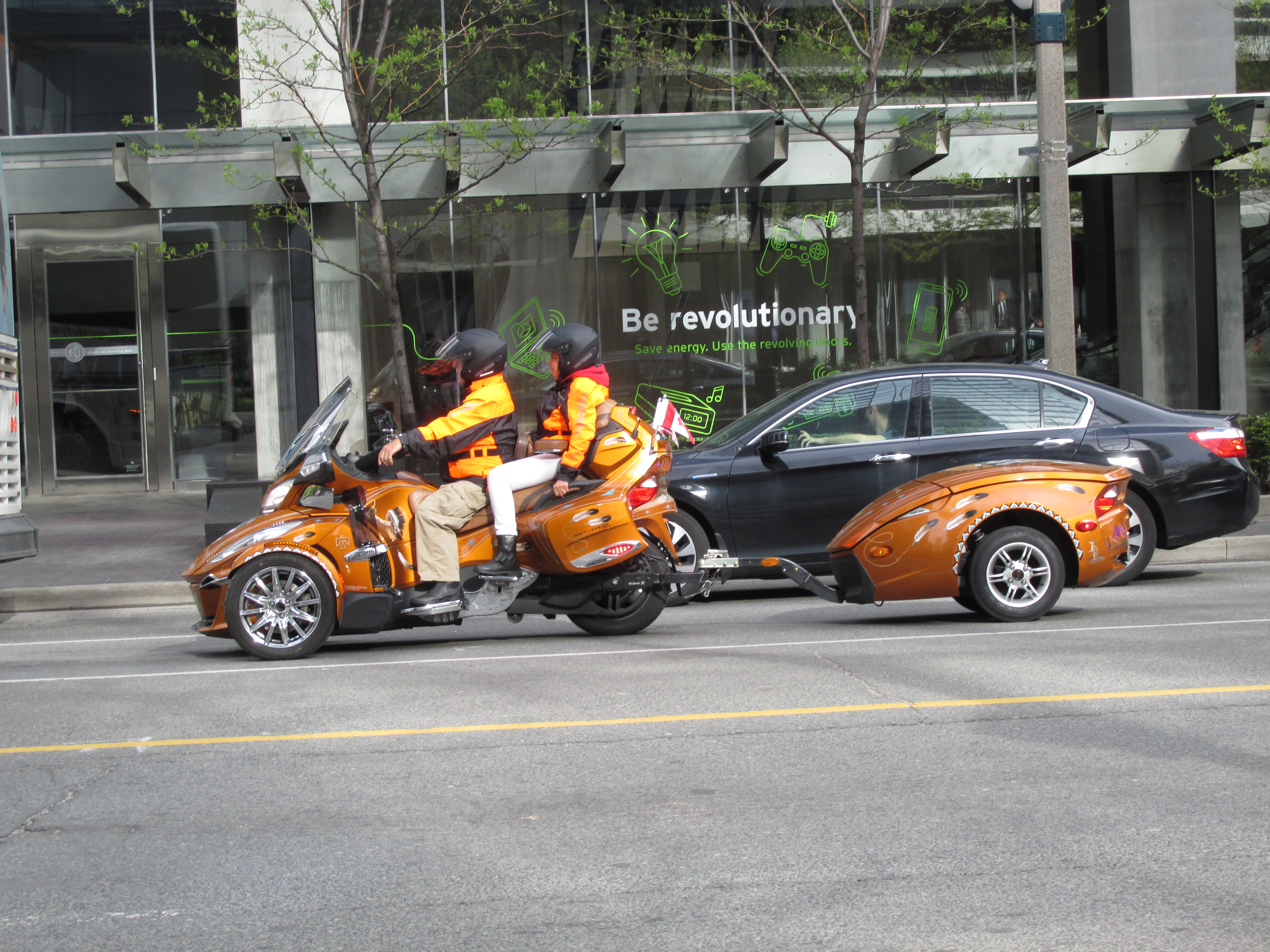 A BRP Can-Am Spyder Roadster motorcycle on the streets of Toronto, Ontario, Canada.